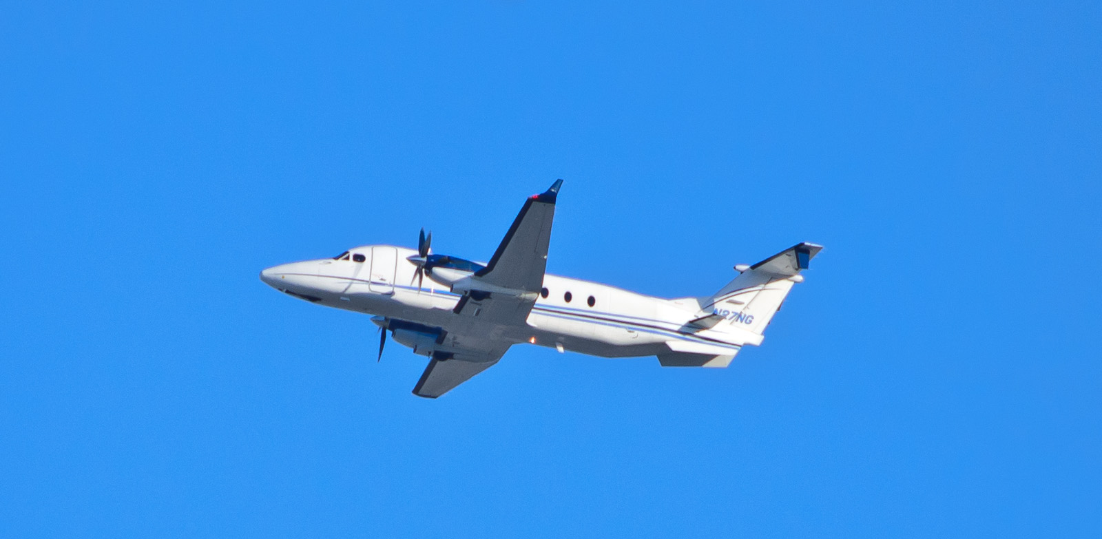 First flying for CommutAir in 2000, this aircraft has been in private service for Northrop-Grumman since 2005. N27NG, Beechcraft 1900D